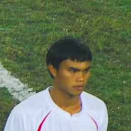 Phan Van Tai Em in Vietnam football team saluting before the match with Thailand in the second-tier AFF Cup 2008 final, December 28, 2008, at My Dinh National Stadium